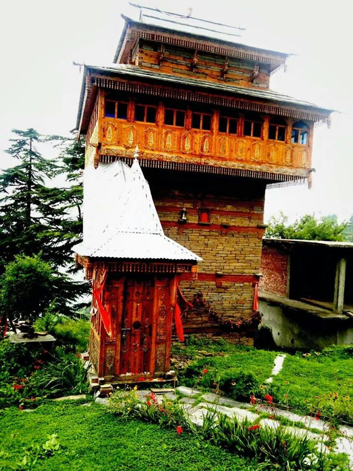 Durga mata temple, Bamta